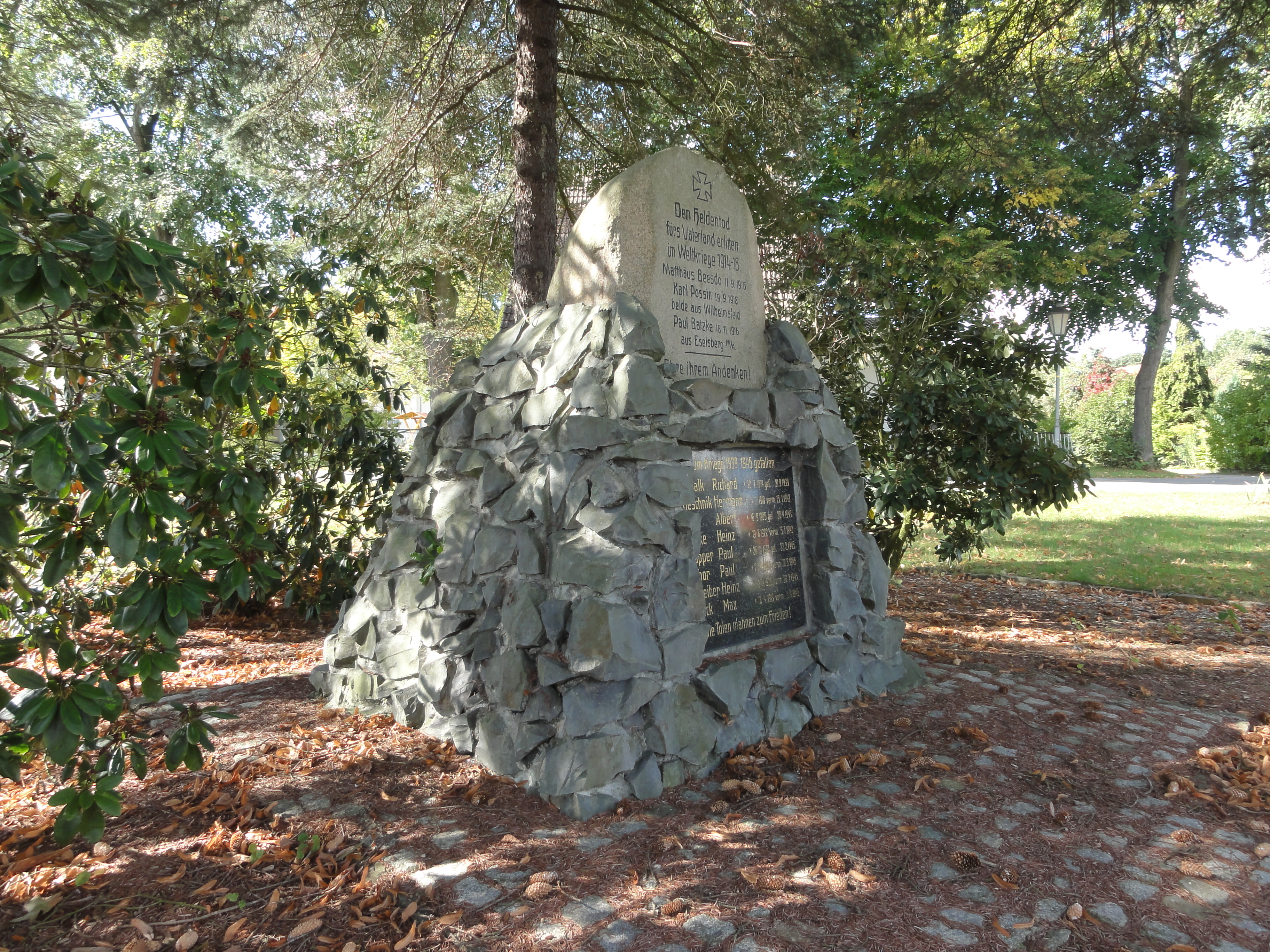 Memorial to the fallen soldiers of World War I and II in Wilhelmsfeld (Kringelsdorf) Inschrift des oberen Steines/Inscription on the upper stone: Den Heldentod fürs Vaterland erlitten im Weltkriege 1914-18. Matthäus Beesdo 11.9.1916 Karl Possin 19.9.1918 beide aus Wilhelmsfeld Paul Batzke 18.11.1916 aus Eselsberg M/A. __________ Ehre ihrem Andenken! Inschrift der unteren Tafel/Inscription on the lower plaque: Im Kriege 1939-1945 gefallen Michalk Richard + 30.7.1914 gef. 21.9.1939 Kieschnik Hermann + 5.2.1910 verm. 15.1.1943 Biele Albert + 16.9.1905 gef. 20.4.1943 Wenke Heinz + 19.8.1922 verm. 5.7.1943 Krupper Paul + 26.12.1901 gef. 22.2.1945 Wichor Paul + 27.12.1908 verm. 10.3.1945 Schreiber Heinz + 2.4.1925 verm. 20.3.1945 Petrick Max + 18.4.1913 verm. 5.4.1945 Die Toten mahnen zum Frieden !